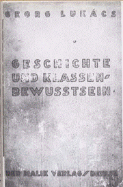 Cover of Lukacs' History and Class Consciousness (German original)